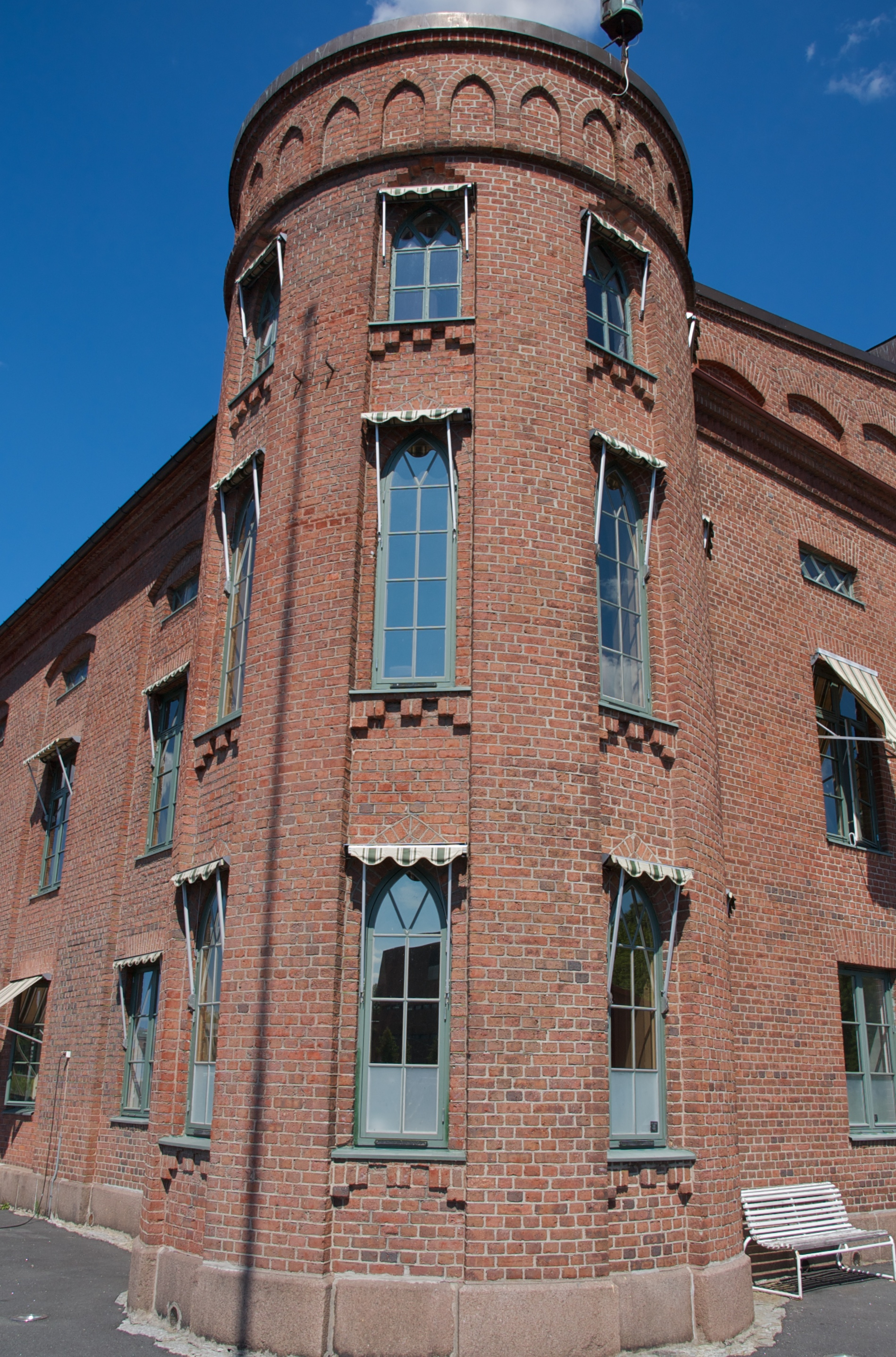 Part of the building "Tollboden" in Skien, Norway.